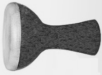 tumbak or tumbaknaer, drum from Kashmir, Indian occupied Kashmir and Pakistan Administered Kashmir An ancient drum indigenous to the Kashmir Valley The word Tumbaknaer has its origin in Sanskrit Tumbukin for drum.